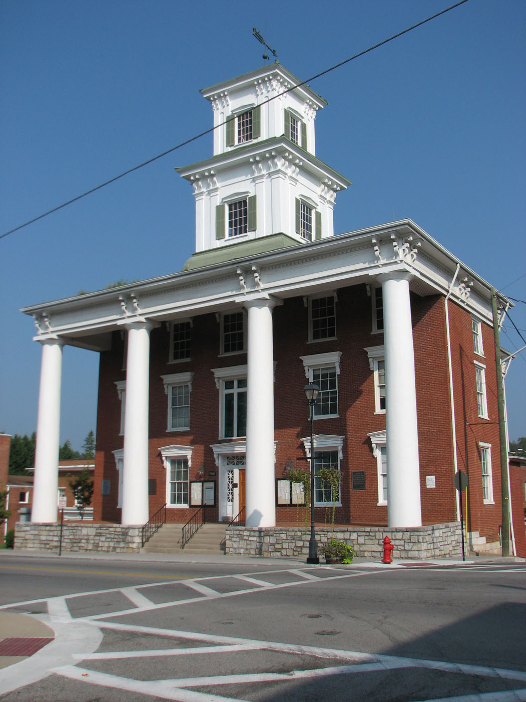 Photograph of the Washington County, Virginia, courthouse, taken by RebelAt, on August 26th, 2006.